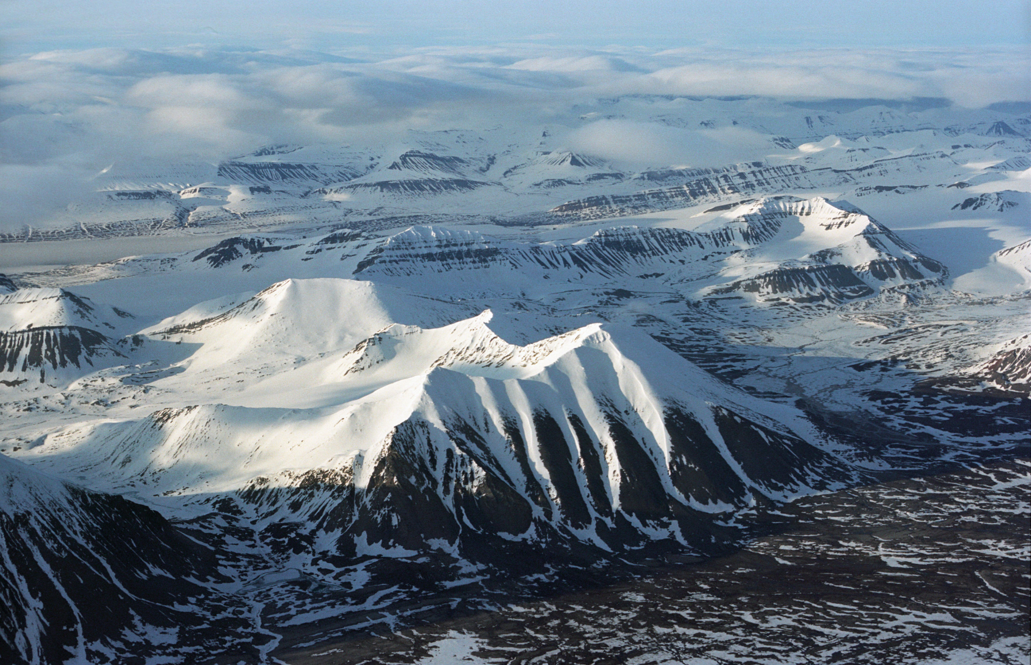 spitsbergen, mountains. This is Systemafjellet mountain in the foreground, behind it the broad valley Orustdalen, and the fjord Grönfjorden (Green Bay) in the background left. The plain in the lower margin of the photo (front) is Nordenskiöldkysten.